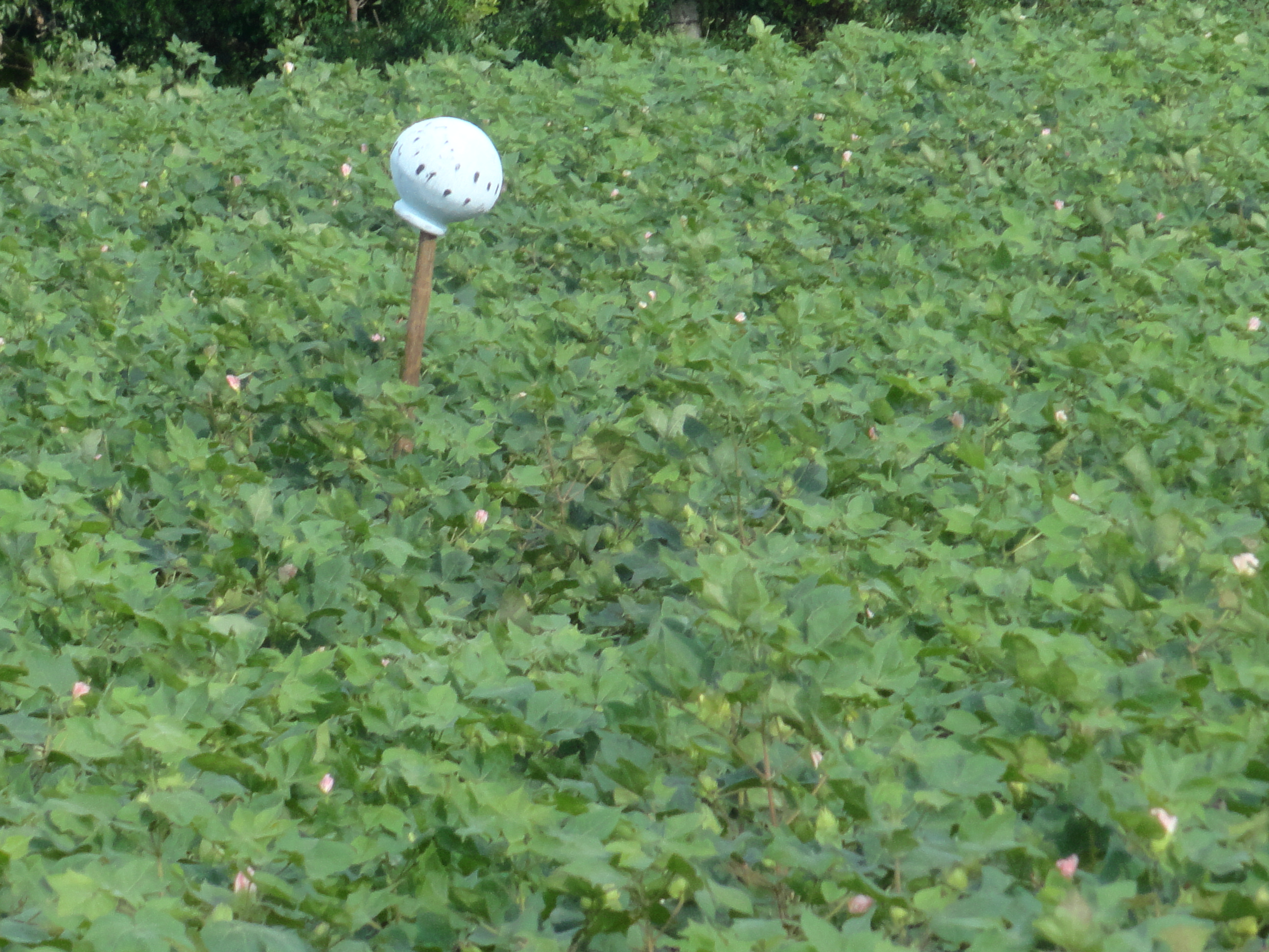 BT cotton crop at nagarjuna sagar